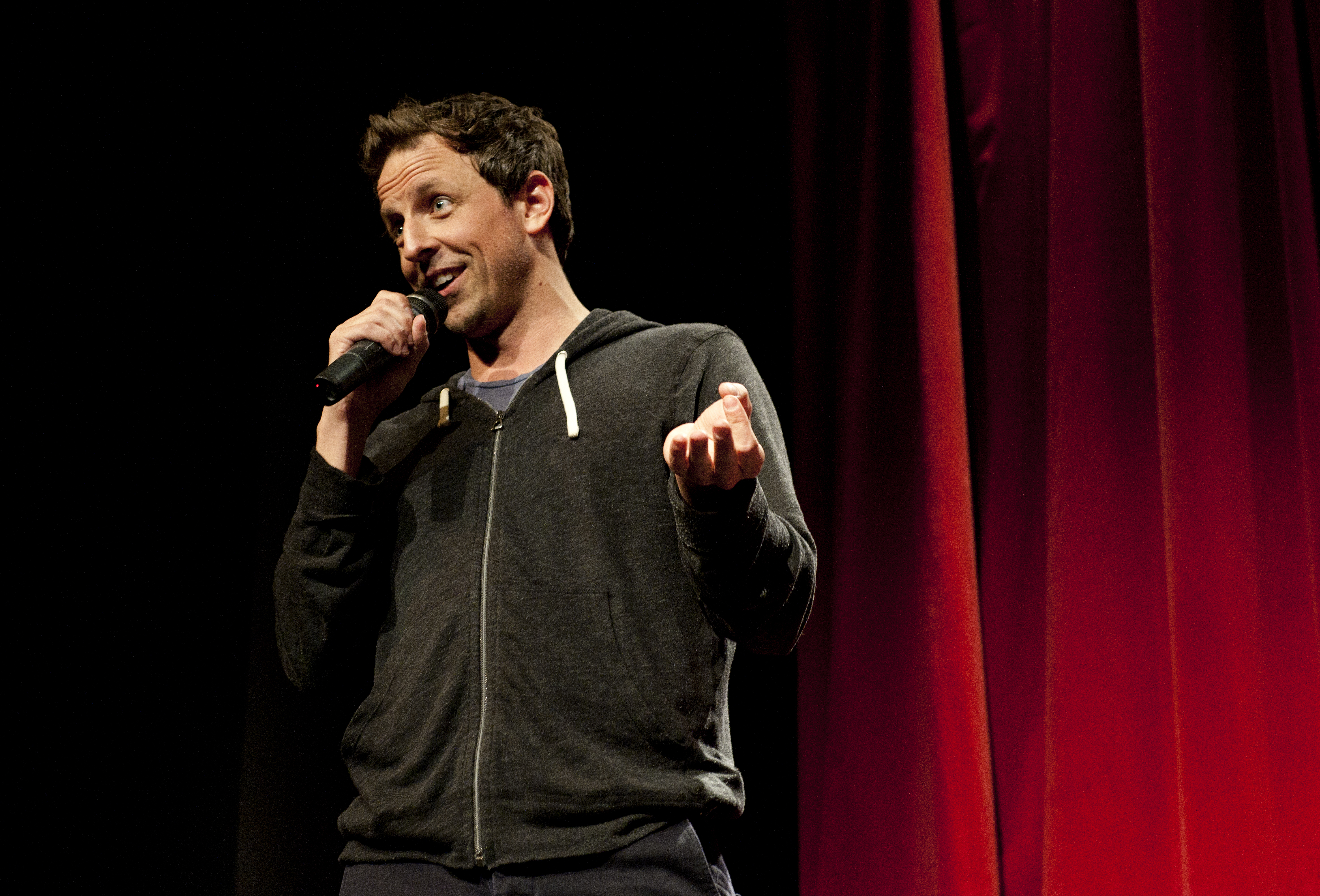 Seth Meyers at Boom Chicago April 22 2013